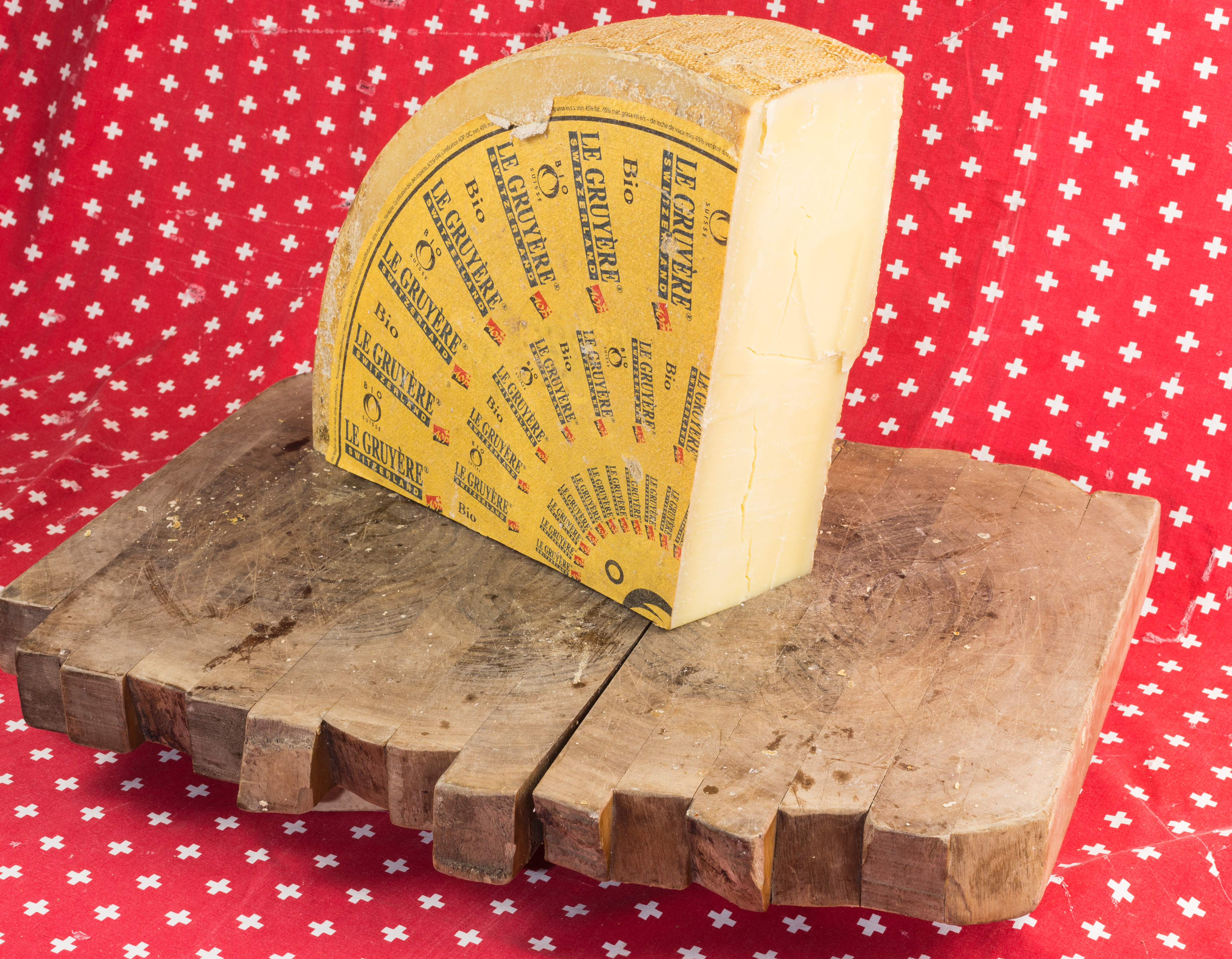 Gruyère is a half-hard to hard yellow cheese, named after the town of Gruyères in Switzerland, and originated in the cantons of Fribourg, Vaud, Neuchâtel, Jura, and Berne. Le Gruyère AOP Réserve has an age of minimum 18 month.